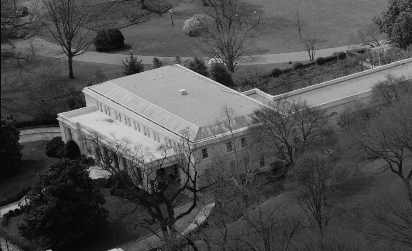 View of the White House East Wing from the North-East